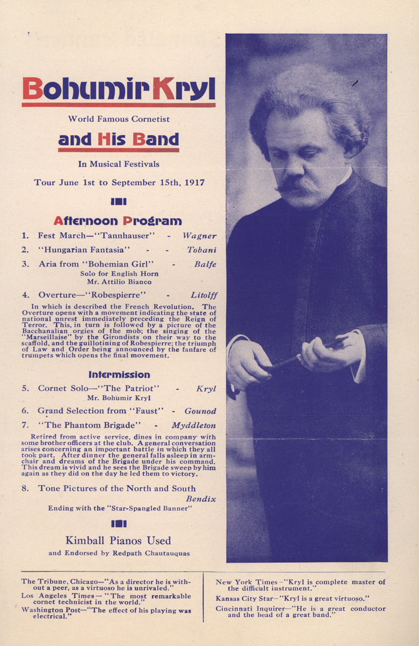 Bohumir Kryl, cornet virtuoso and bandleader. Program page from 1917 US tour with photo of Kryl and program of selections played.